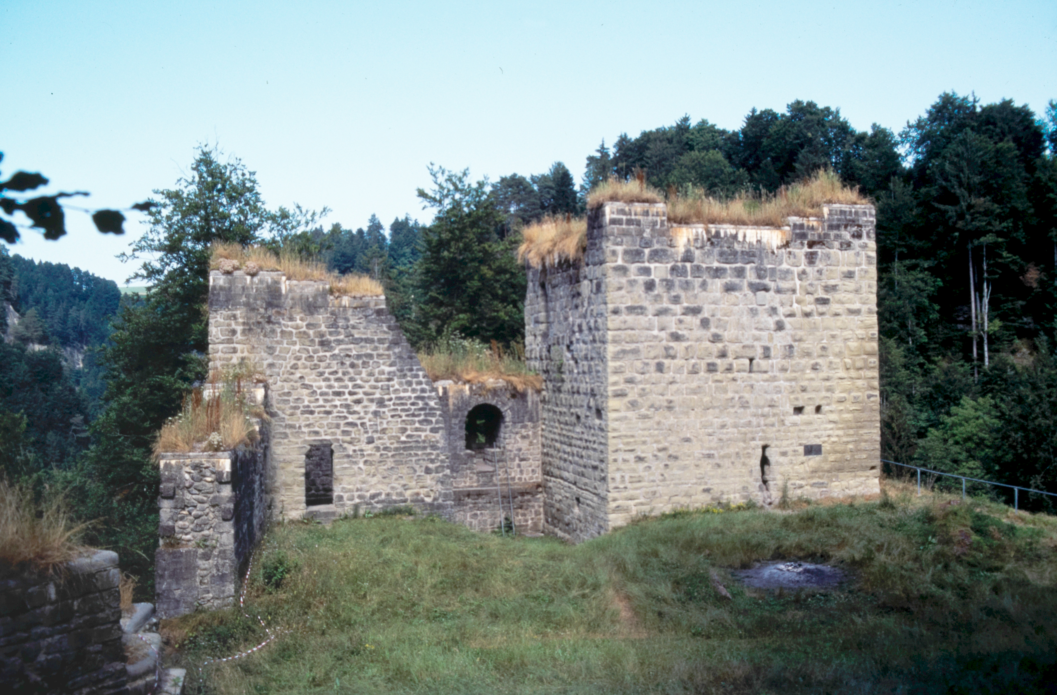 Eastern part of the ruined castle Grasburg during maintenance work in 1994.